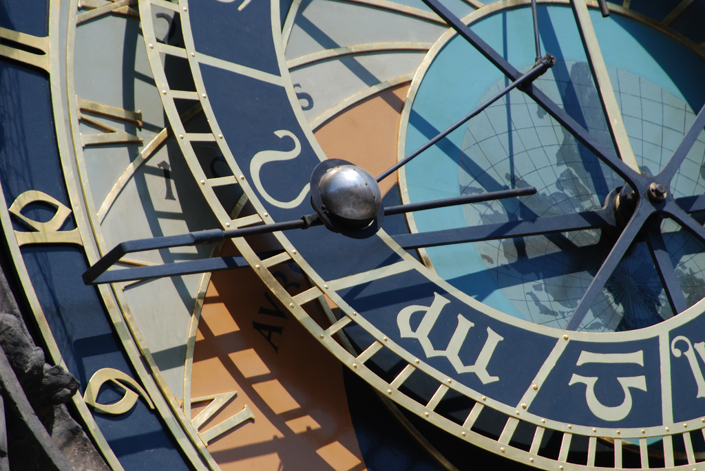 Detail of the Prague Astronomical Clock or Prague Orloj (Czech: Pražský orloj, [praʒski: ɔrlɔi]) is a medieval astronomical clock located in Prague, the capital of the Czech Republic. The Orloj is mounted on the southern wall of Old Town City Hall in the Old Town Square and is a popular tourist attraction.